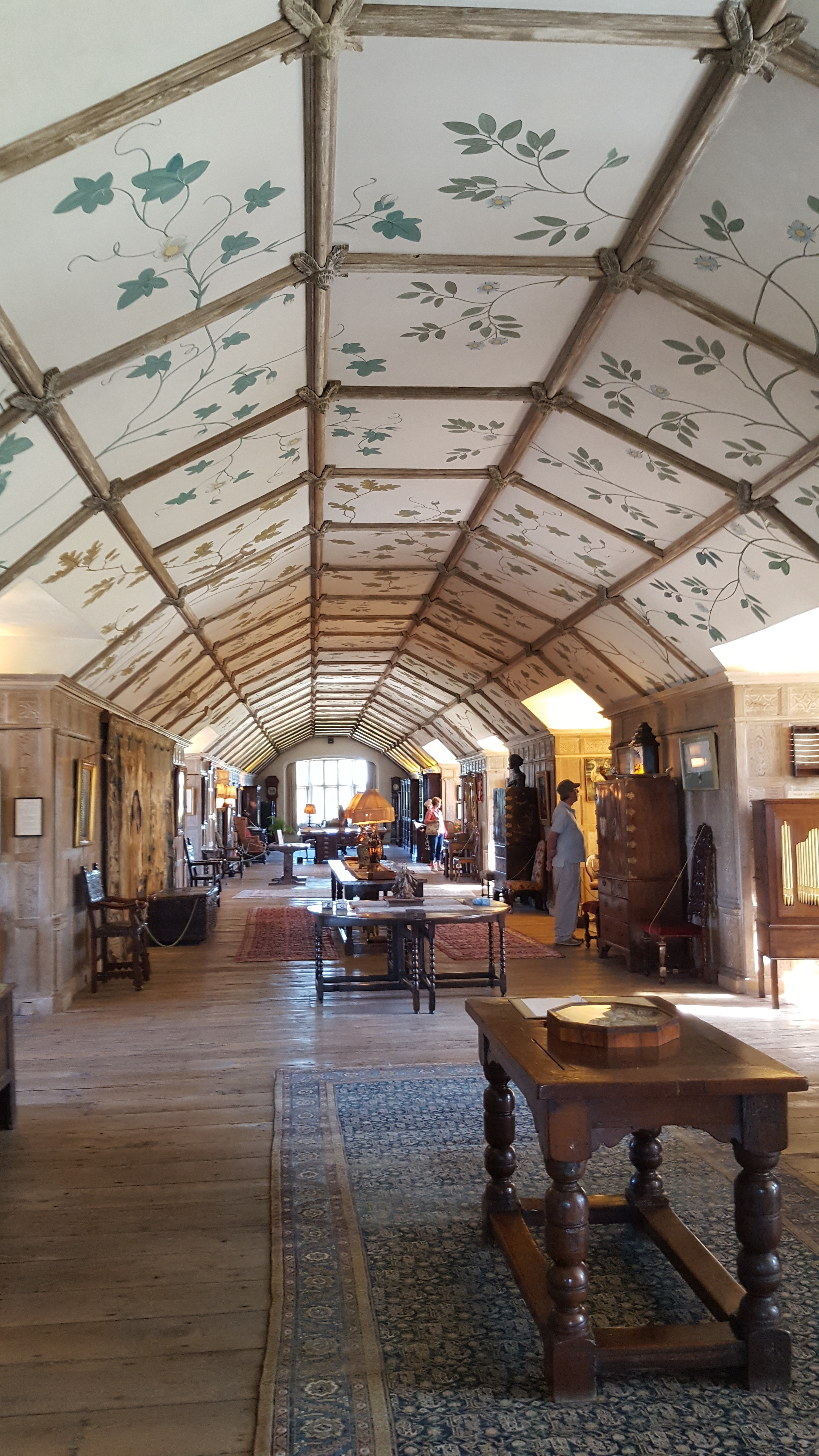 The Long Gallery, Parham House, near Storrington in West Sussex.